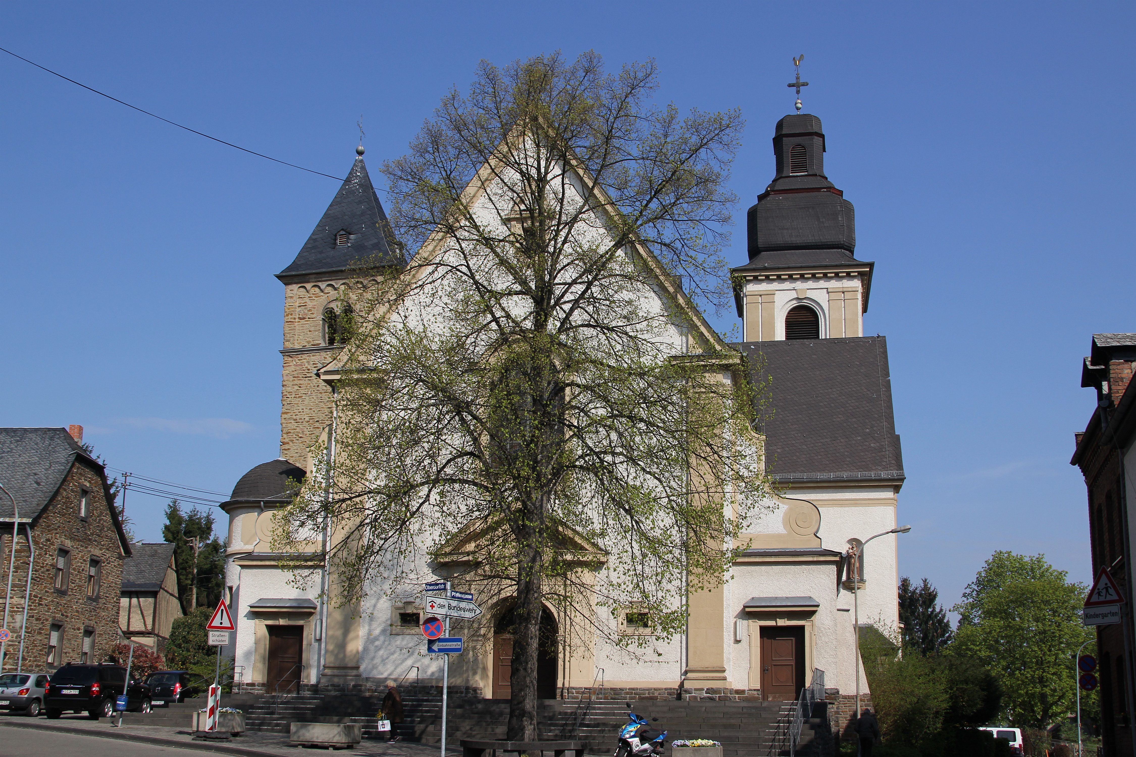 St. Johannes Church in Koblenz